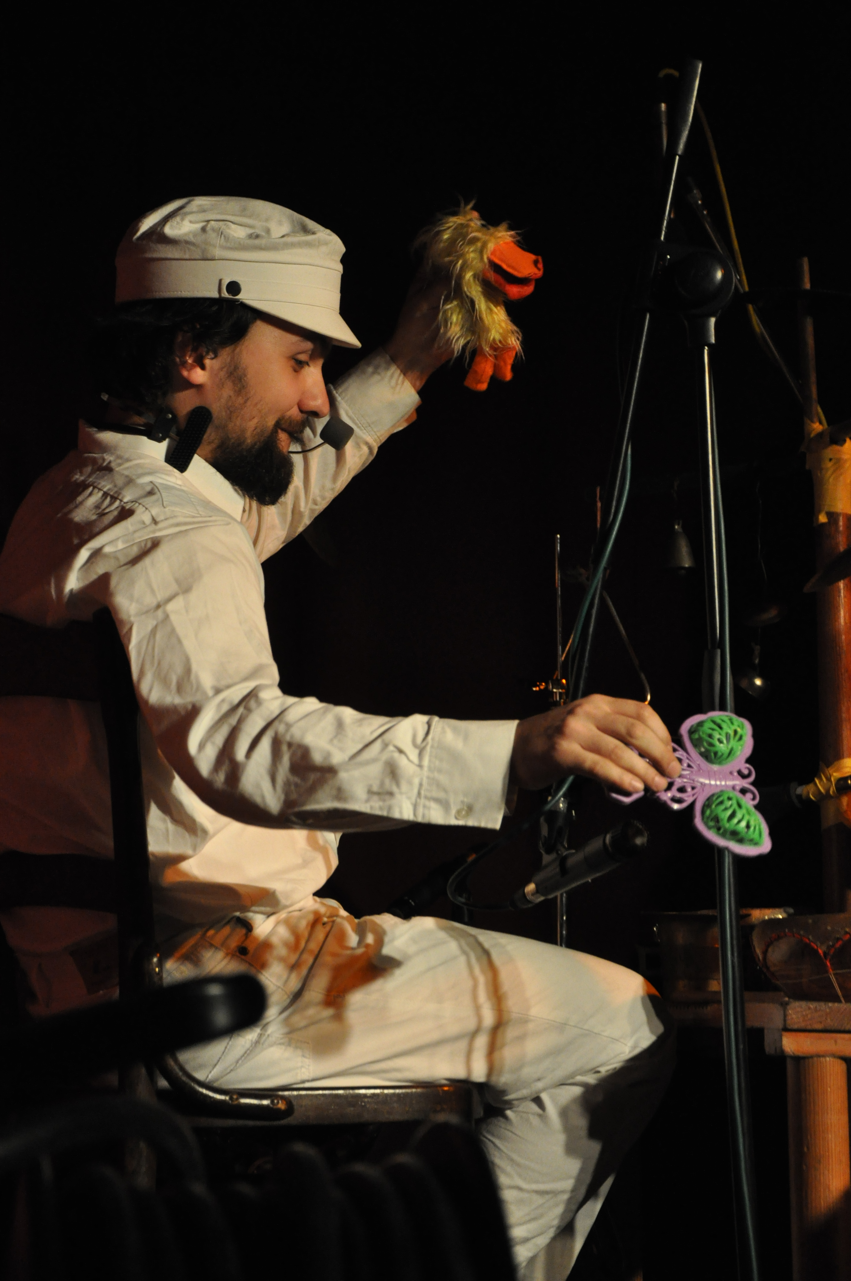 Květy musical group, České Budějovice, Czech Republic Česky: Kapela Květy v Českých Budějovicích